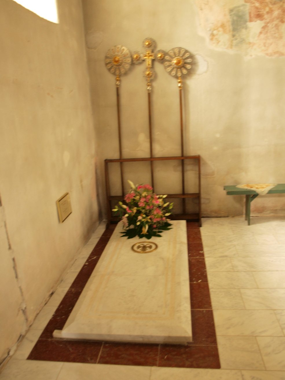 Tomb of Serbian despot Stefan Lazarević, monastery Manasija, near Despotovac, Serbia.